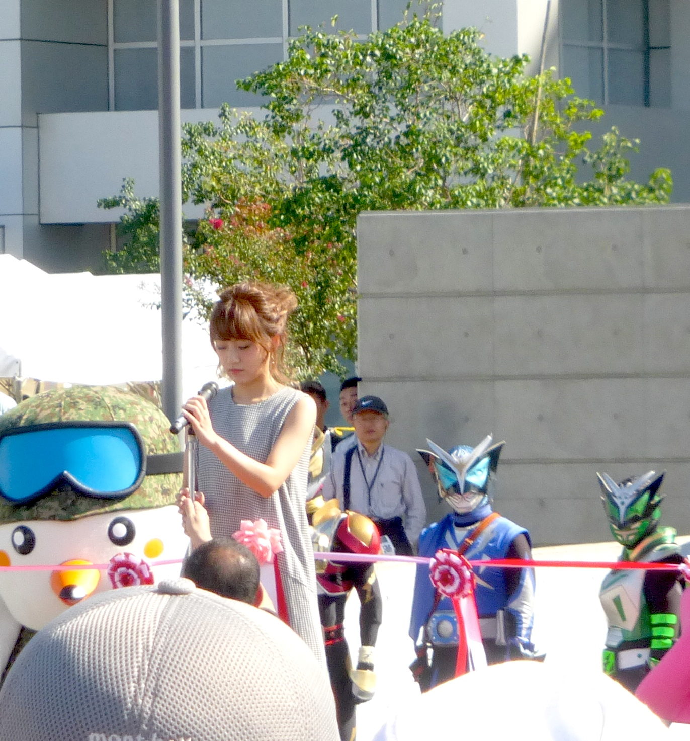 高橋みなみ、第４回東京拘置所矯正展にて (Minami Takahashi at the 4th Tokyo Detention House Exhibition)